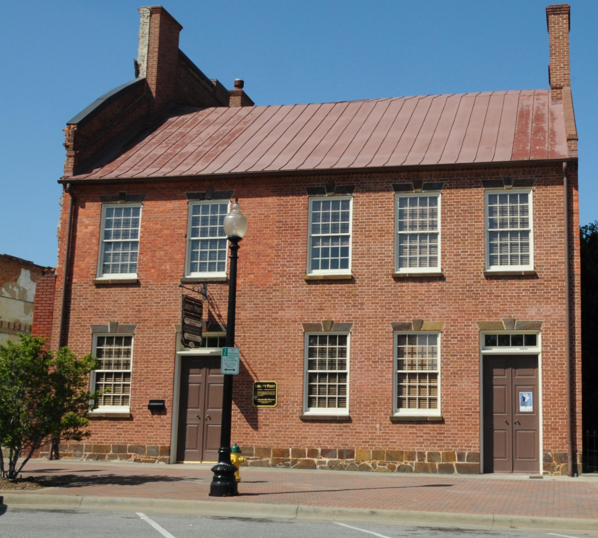 LIBERTY POINT; BUILT IN 1791 IT IS THE OLDEST COMMERCIAL BUILDING IN FAYETTEVILLE